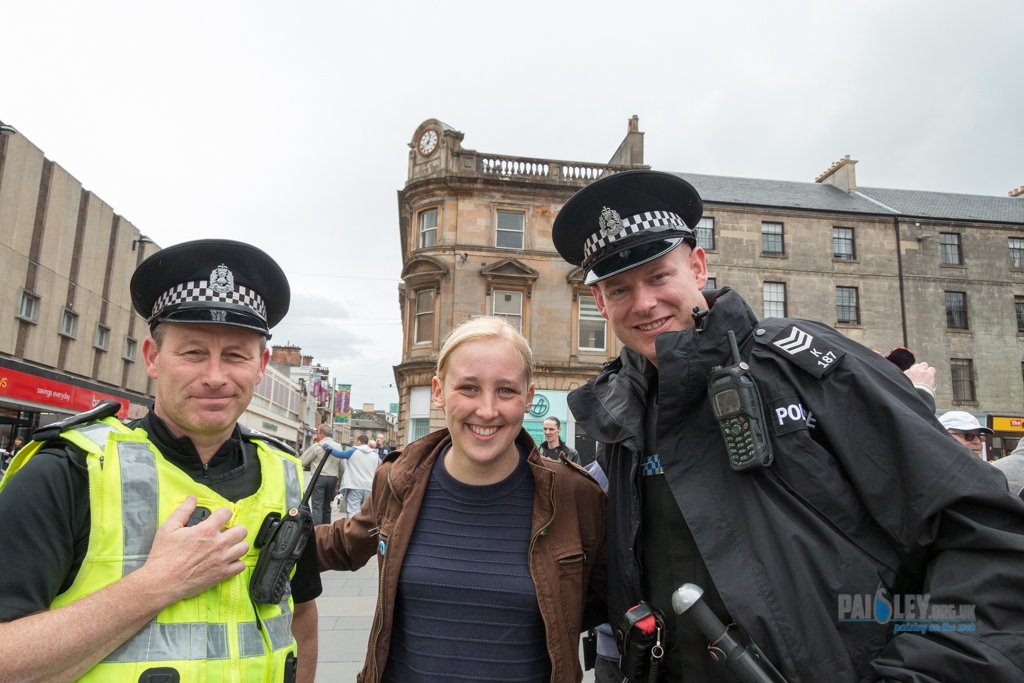 Campaign for Nuclear Disarmament Protestors in Paisley Cross today. Attended By Mhairi Black MP, Gavin Newlands MP, George Adam MSP, and others. Photographs taken by Brian McGuire for